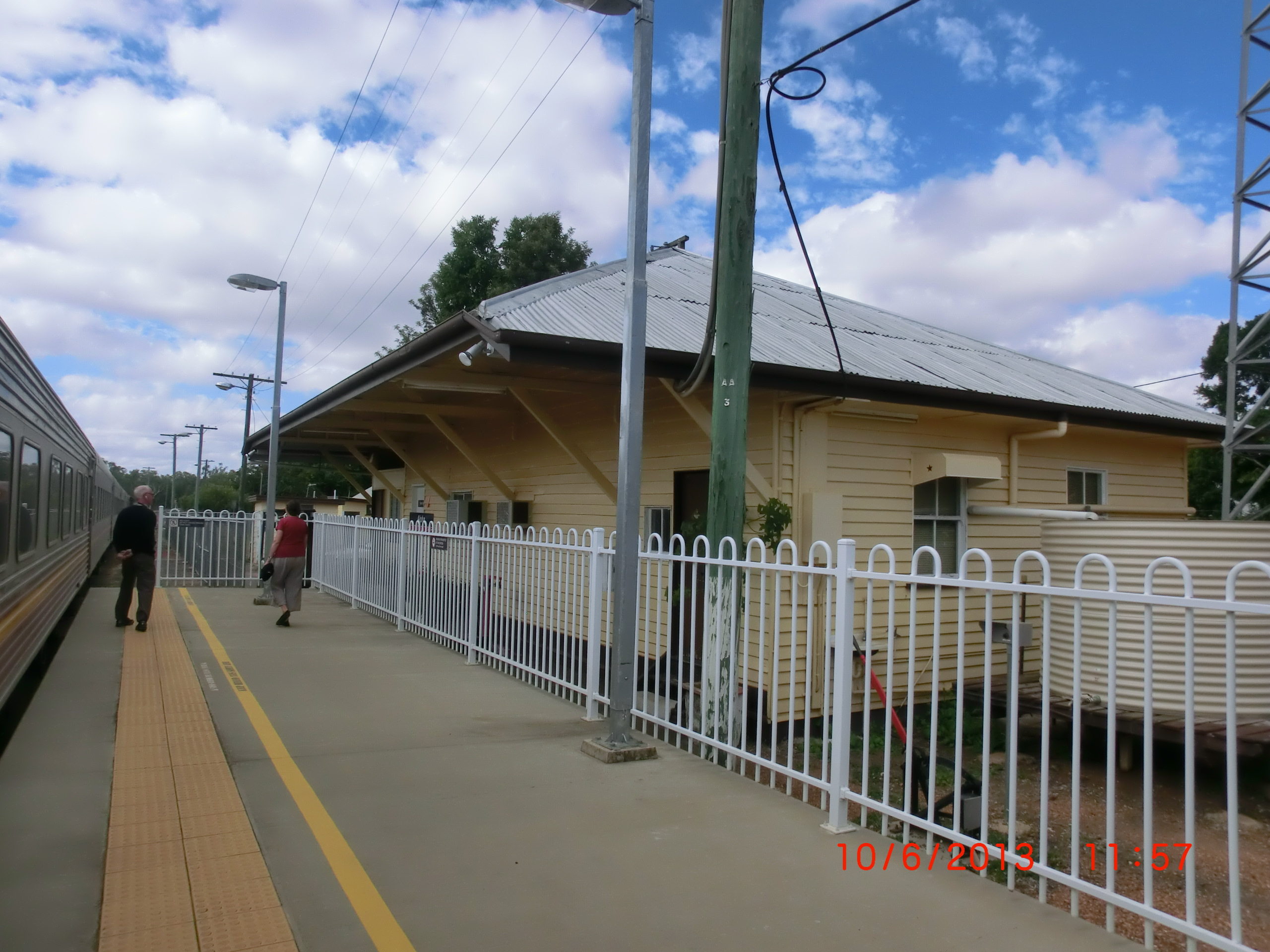 Platform of Alpha Railway Station